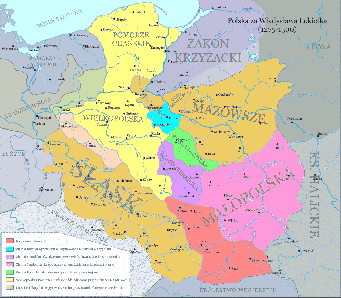 Poland on the change from Przemyslaw II. to Wladislaw Lokietek